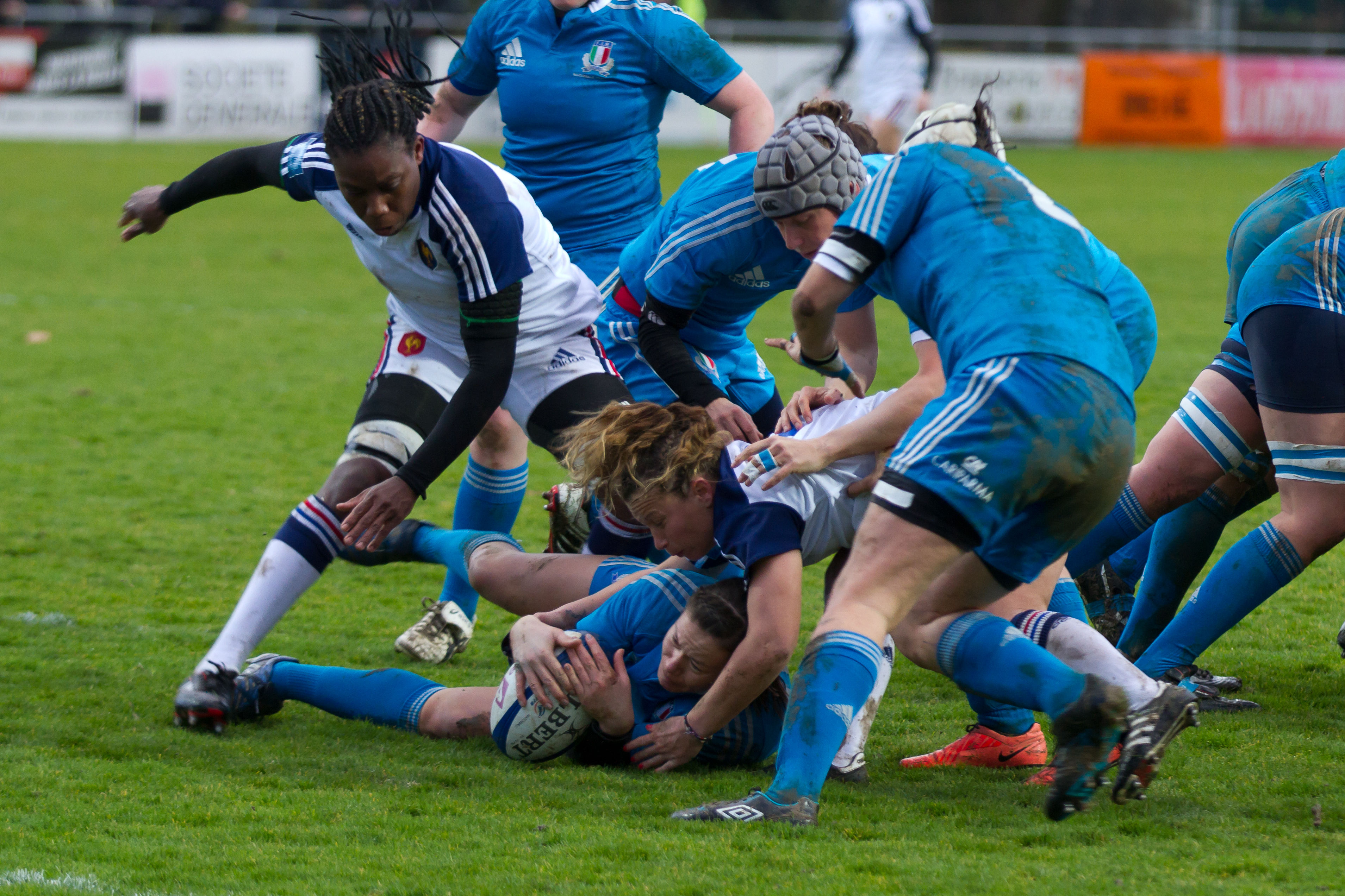 2014 Women's Six Nations Championship — 9 February 2014, Stade Ernest Argeles. Match between: France women's national rugby union team — Italy women's national rugby union team